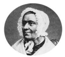 Betsi Cadwaladr, who worked as a nurse in the Crimean War. She died in 1860.